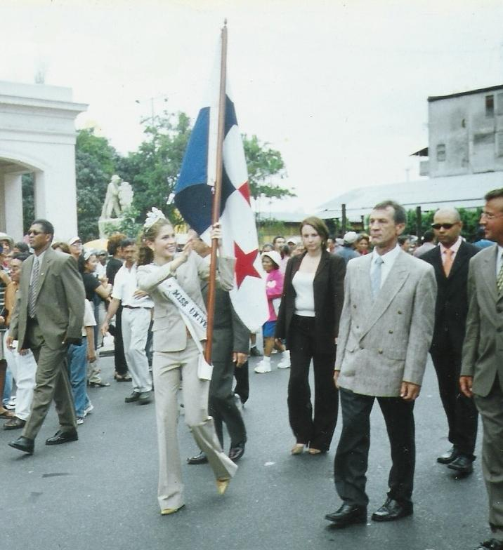 Justine passek liderando el desfile del 3 de noviembre de 2003, justine passek in front of the parade of the 3 of november of 2003